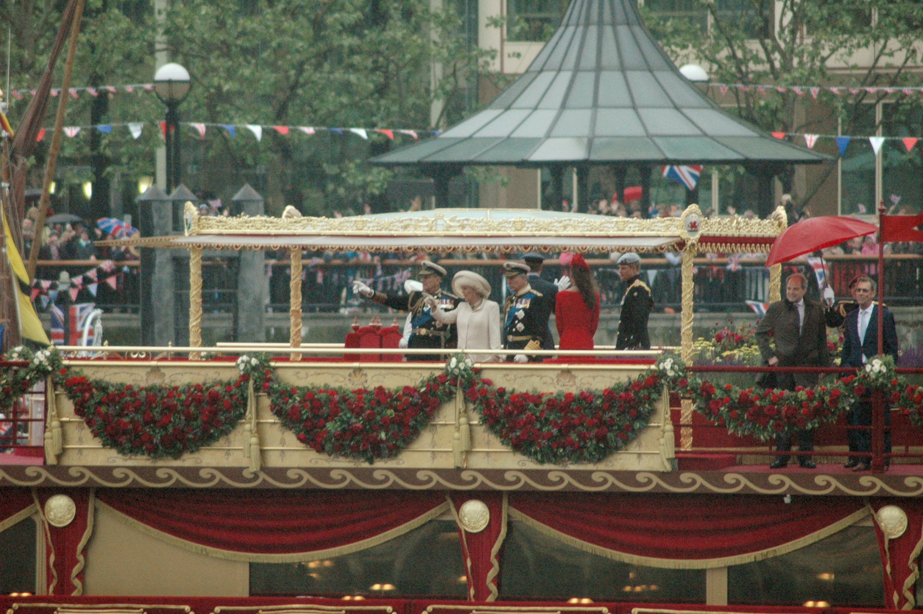 From left to right: Queen Elizabeth II (partly visible in white), Prince Philip, the Duchess of Cornwall, Prince Charles, the Duchess of Cambridge and Prince Harry, on board the Spirit of Chartwell at the Thames Royal Pageant